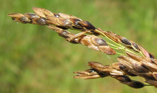 Closeup of some Johnson Grass ovaries which have developed into dark grains